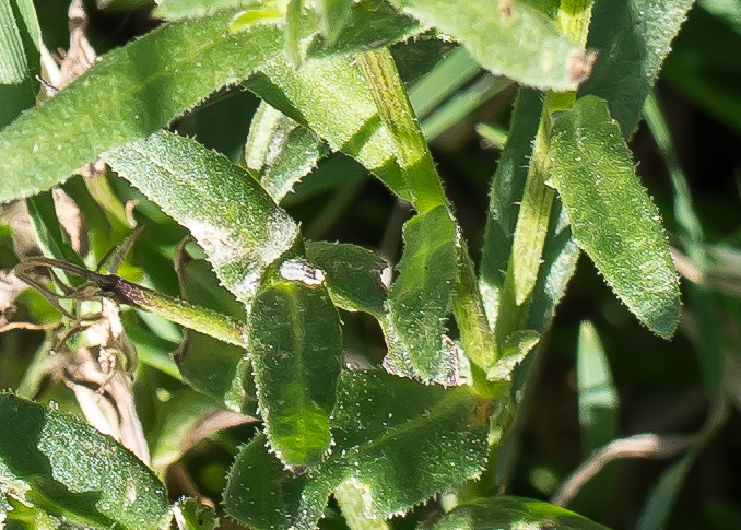 Calendula stellata - leaf